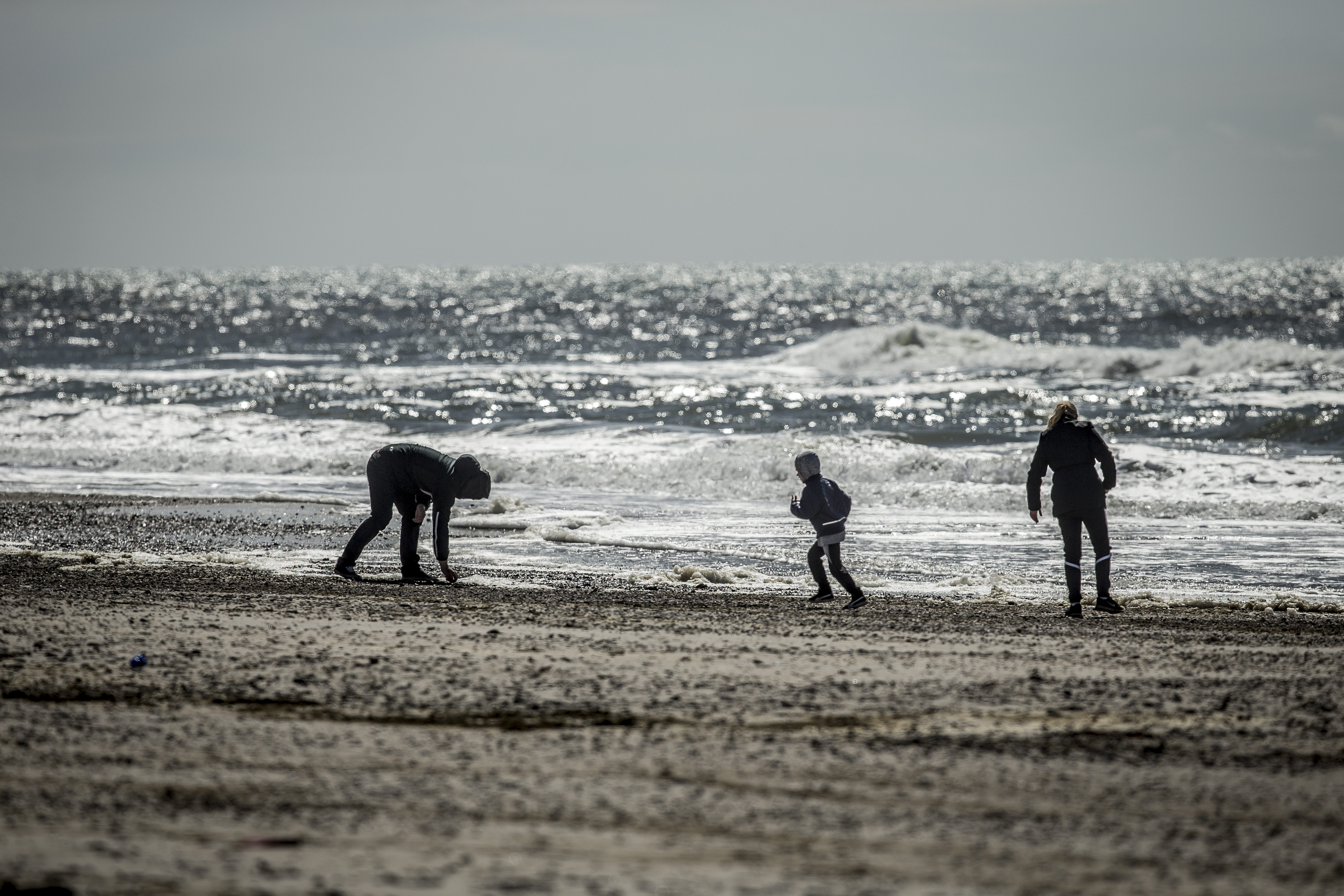 Family having fun on the beach at Varde